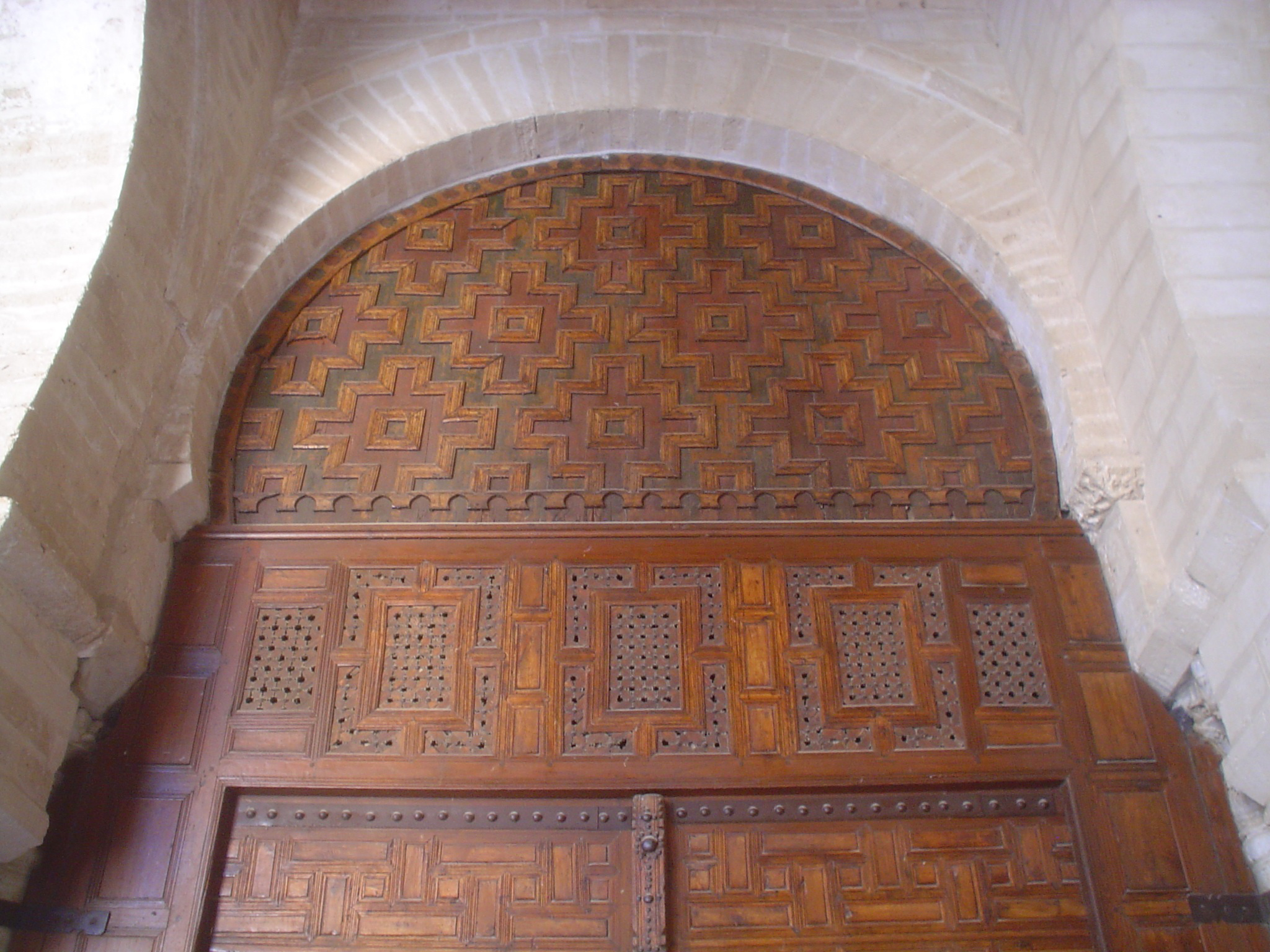 Oqba Ibn Nafi Mosque, Kairouan, Tunisia.